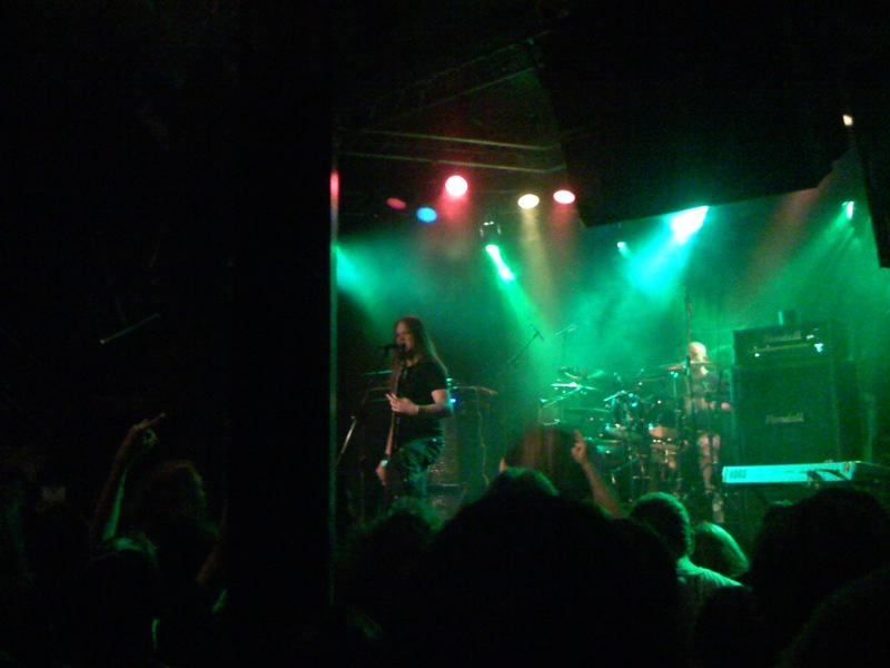 Finnish band Insomnium live in concert (2007)